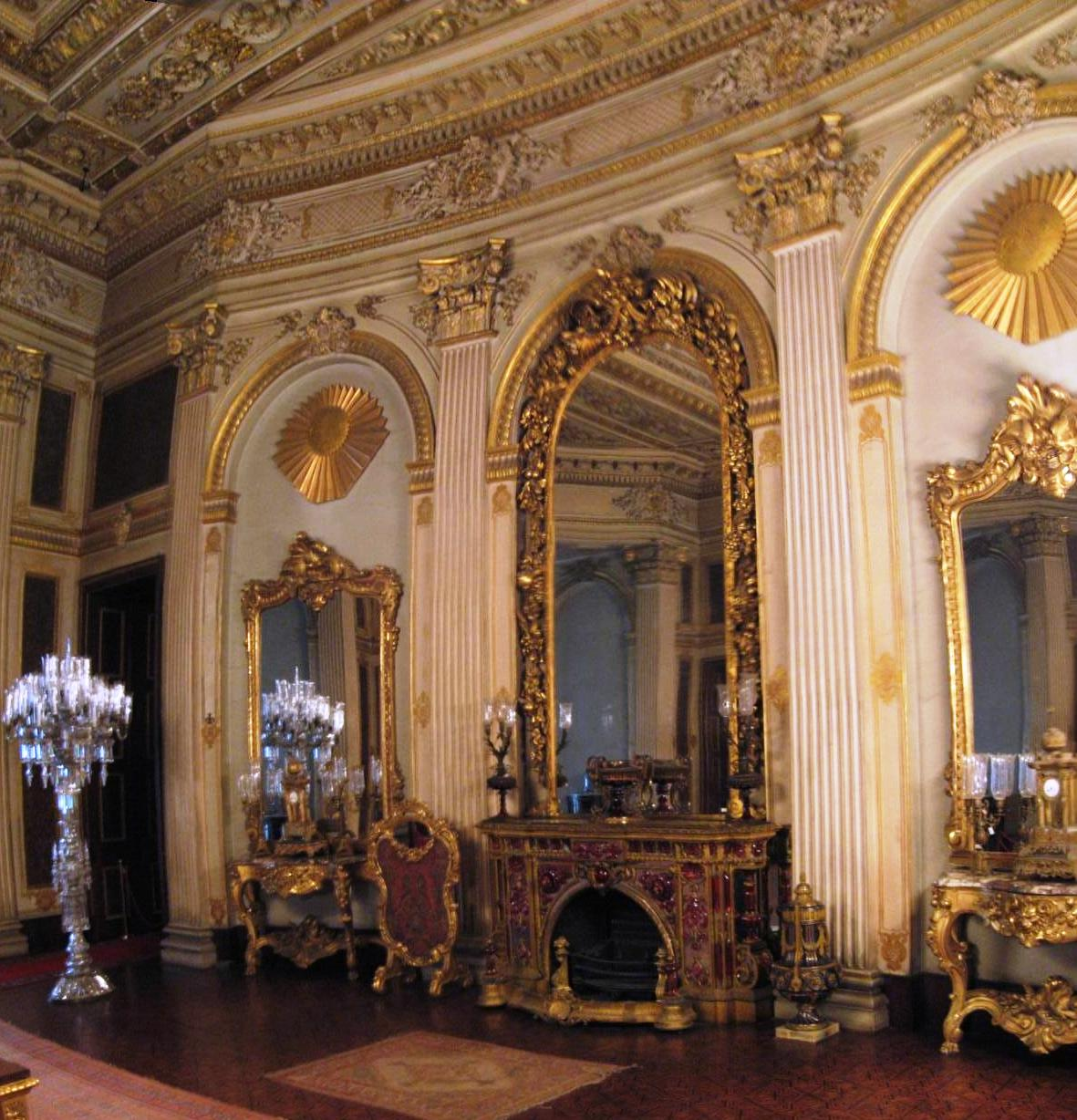 The Privy Chamber (Zülvecheyn Salonu) in the Harem of Dolmabahçe Palace. (#11 of the tour).